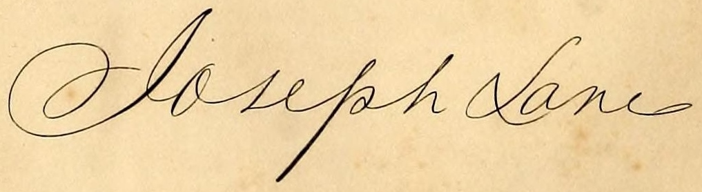 Signature of Joseph Lane.